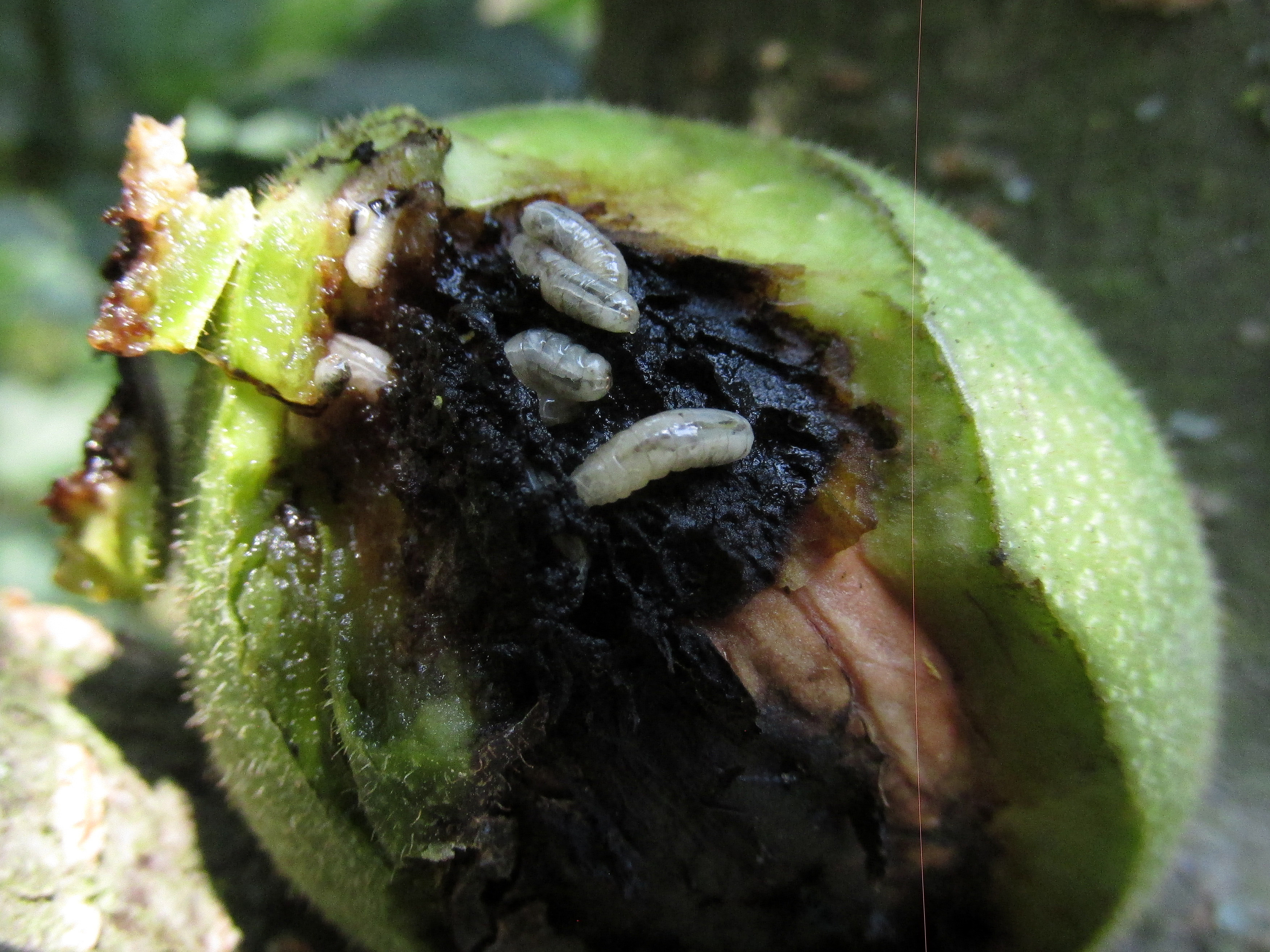 Larvas of the walnut husk fly on a infested walnut